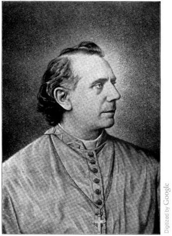 Archbishop Feehan of Chicago